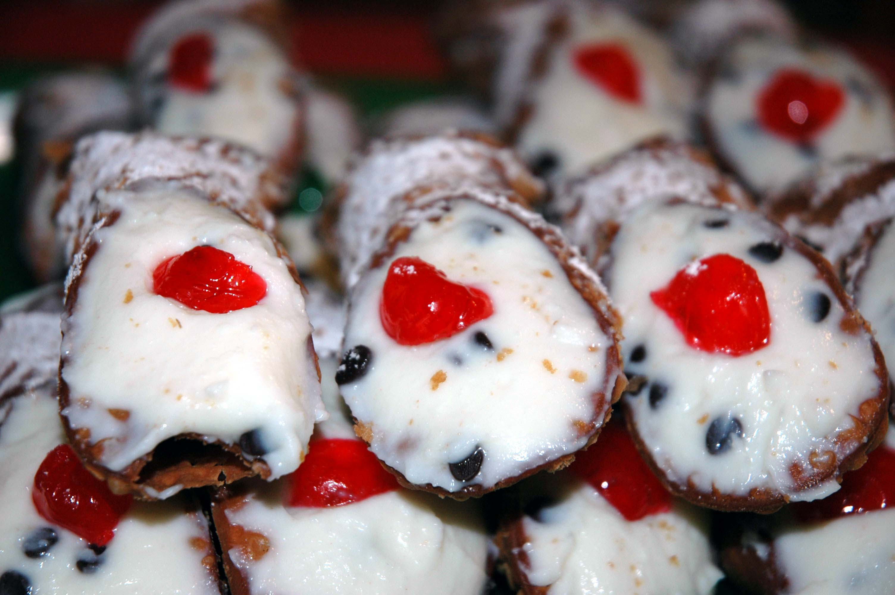 Home-made cannoli at family's New Year's Eve party in Sant'Elia, province of Palermo Sicily.